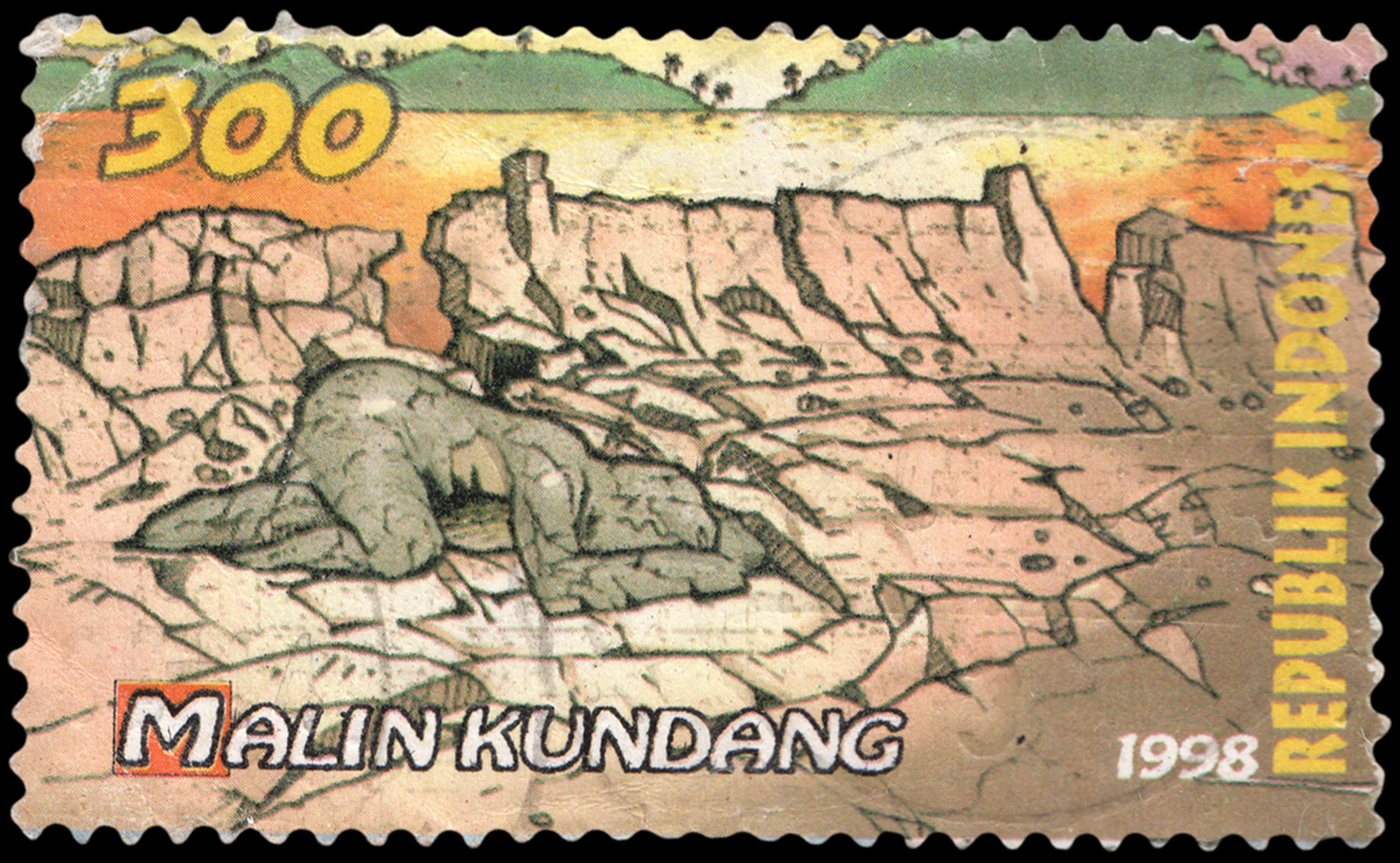 Malin Kundang, 300rp (1998)